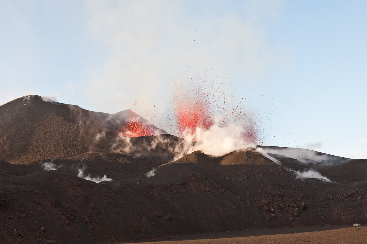 Volcanic eruption at Fimmvörðuháls in Iceland on its 6th day